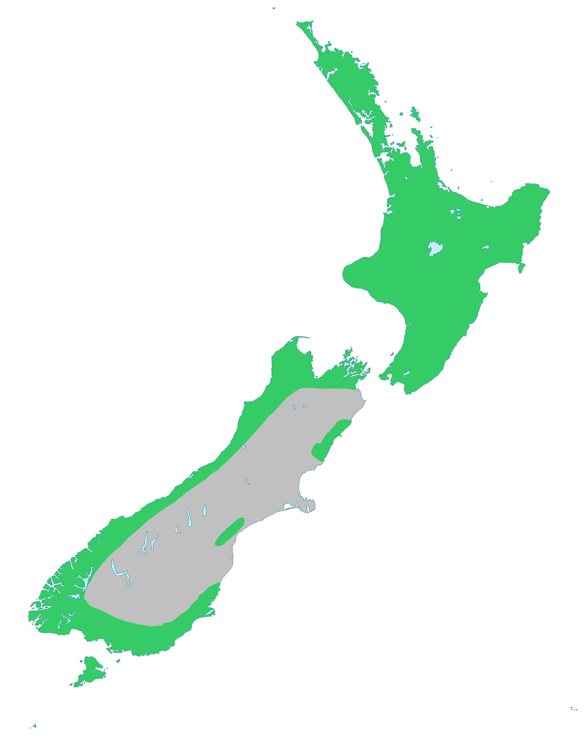 Natural range of Dacrydium cupressinum, Rimu, endemic to New Zealand. Range information based on Metcalfe, L. (2002). A Photographic Guide to Trees of New Zealand. New Holland: Auckland. p. 15.